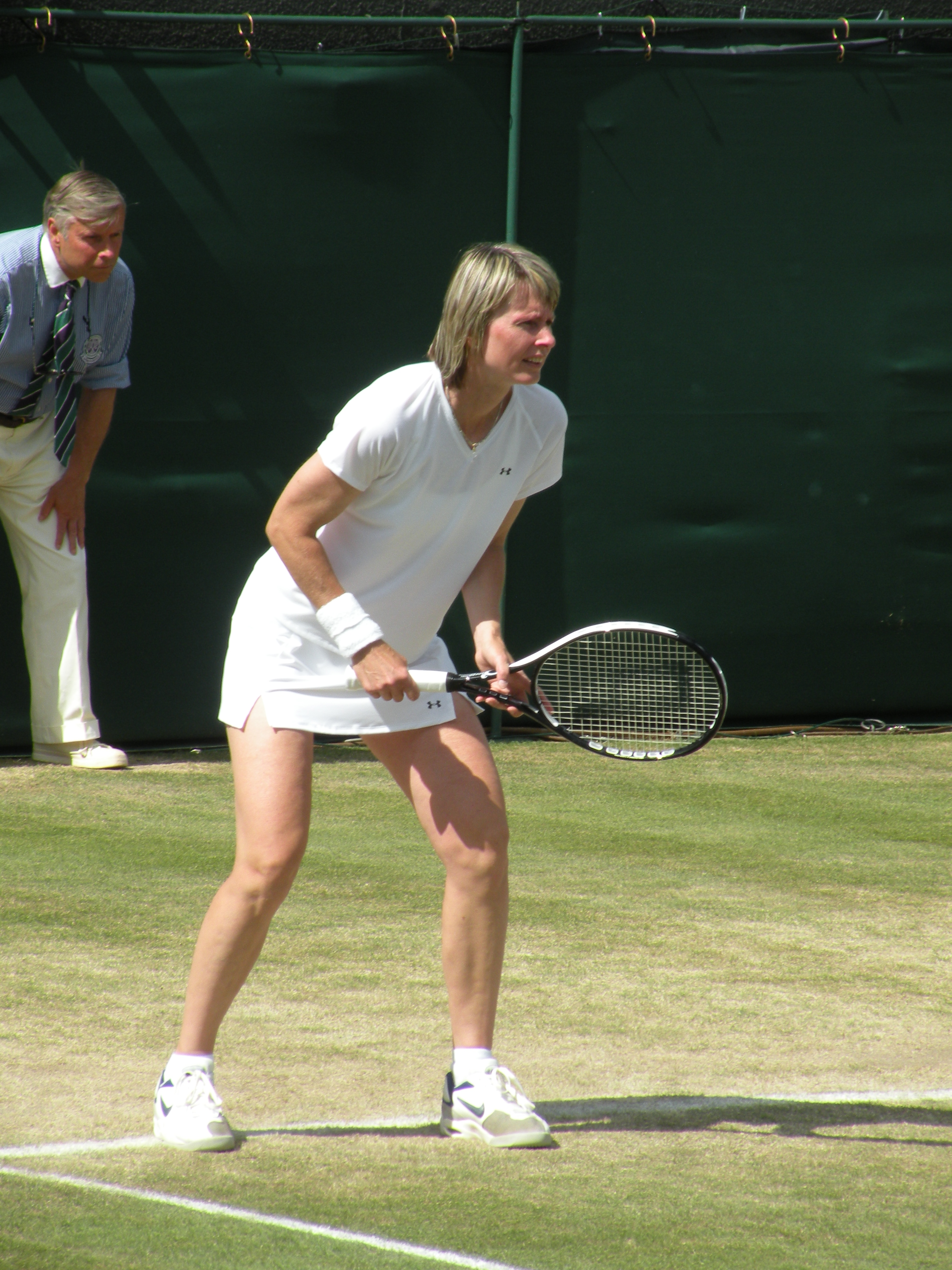 Helena Sukova playing in the ladies over 35 invitational doubles at Wimbledon 2008